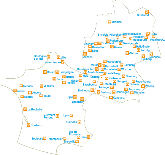 small UFA network map